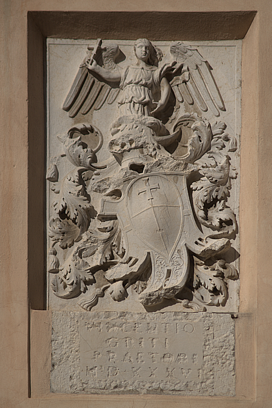 Coat of arm of Gritti family on the town Hall of Crema (Italy)